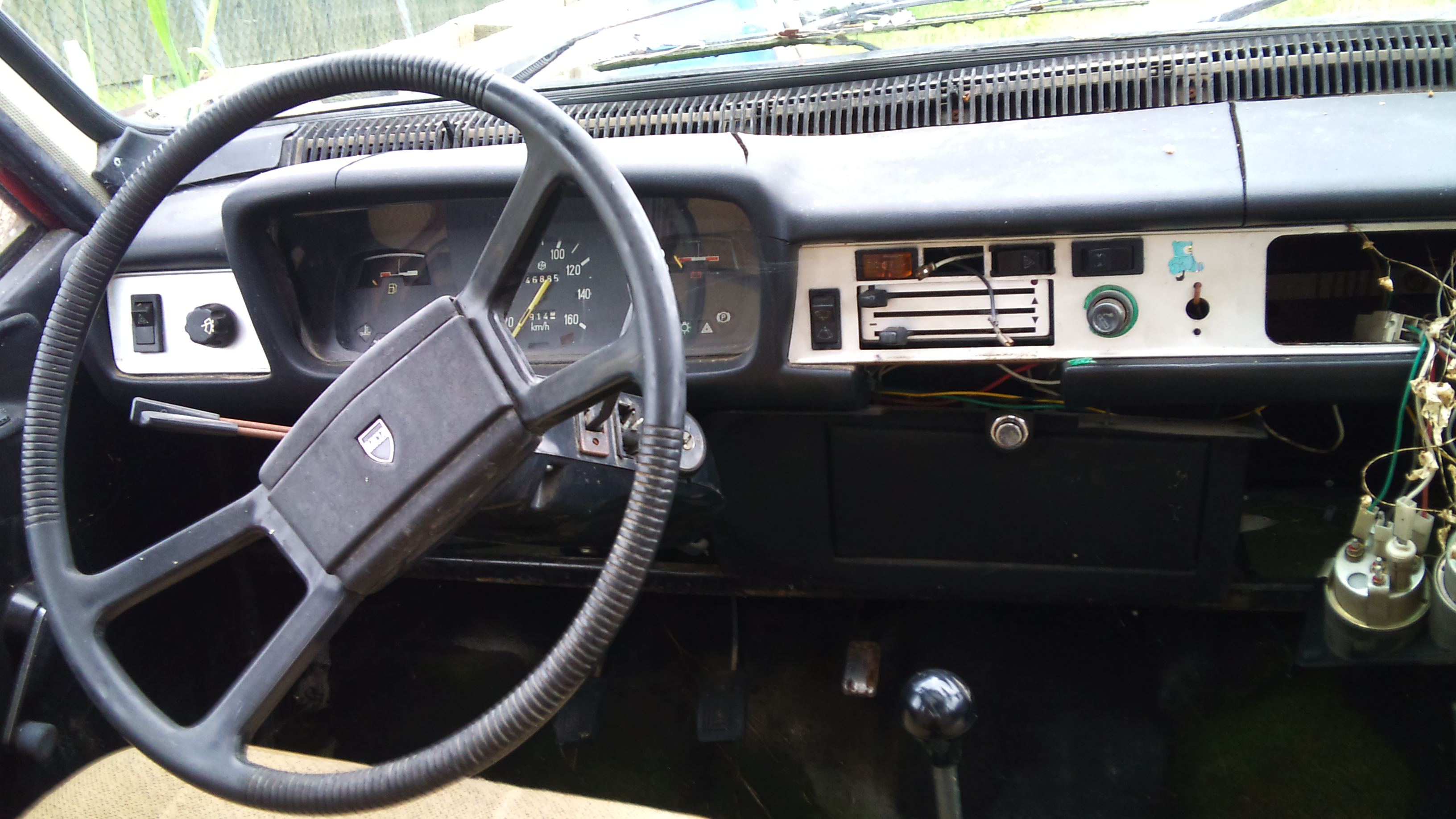 Desk of a Dacia 1310